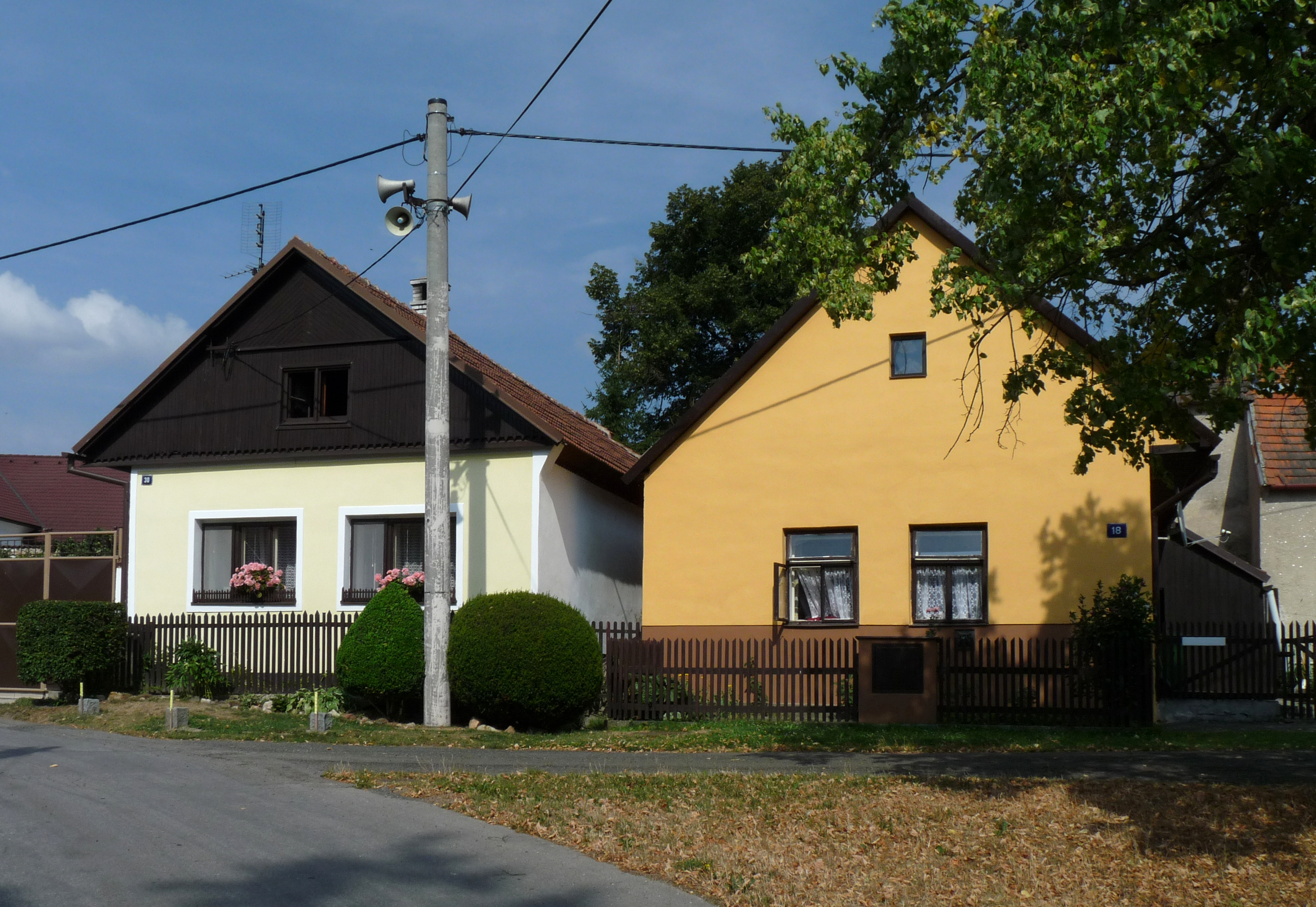 Houses No 30 and 18 in the village of Uhřínovice, part of the town of Brtnice, Jihlava District, Vysočina Region, Czech Republic.